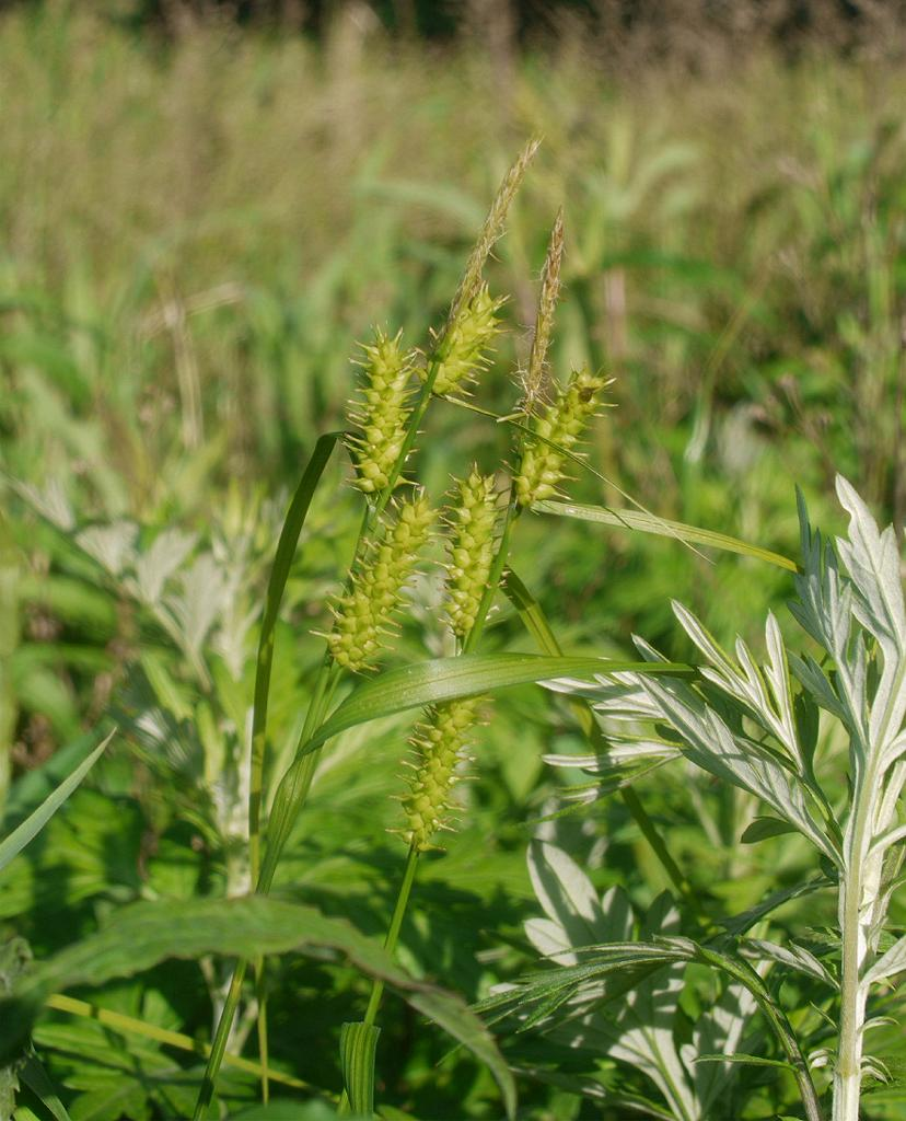 Carex transversa(Cyperaceae)